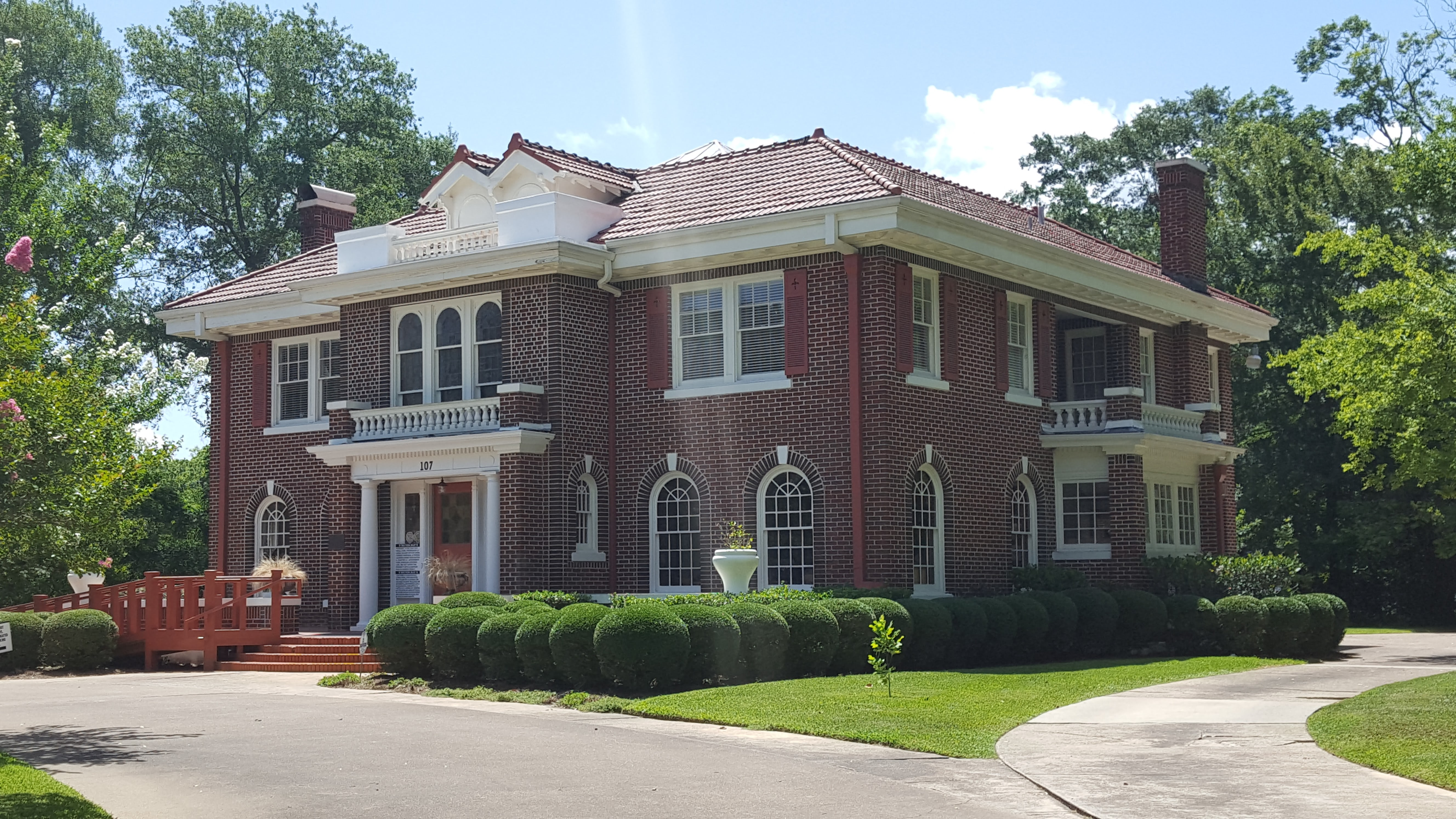 Boynton-Kent House in Lufkin, Texas. Listed on the National Register of Historic Places.